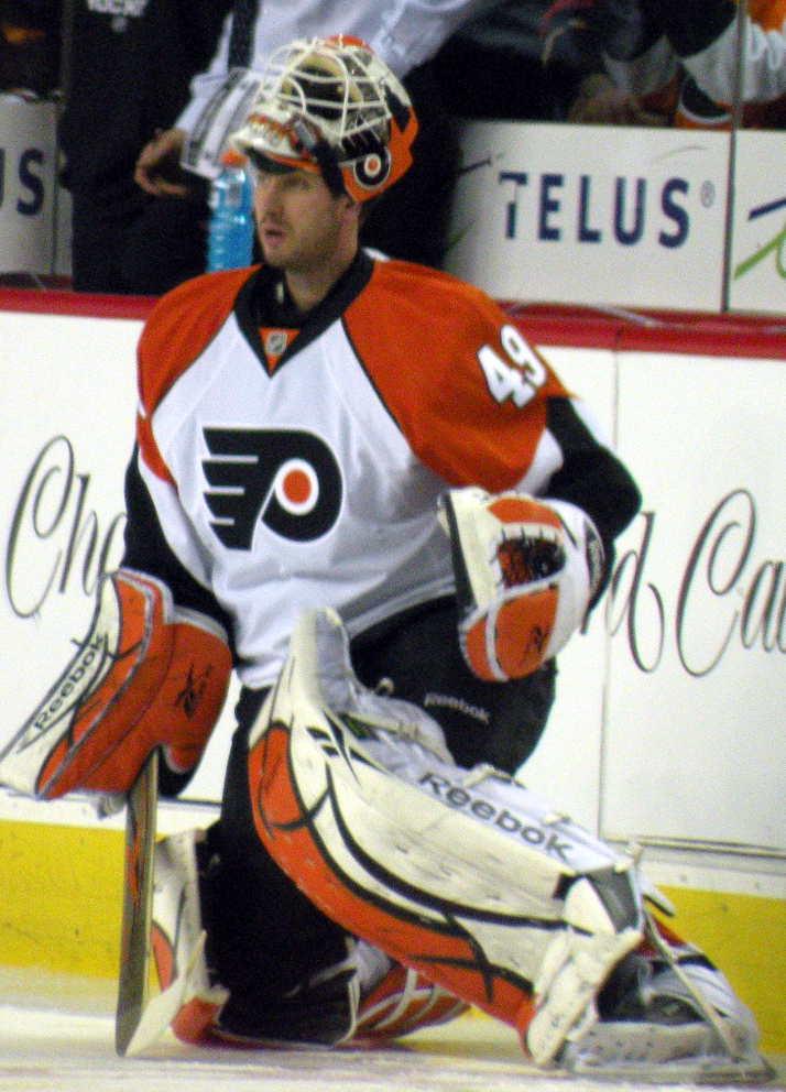 Philadelphia Flyers goaltender Michael Leighton prior to a National Hockey League game against the Calgary Flames.